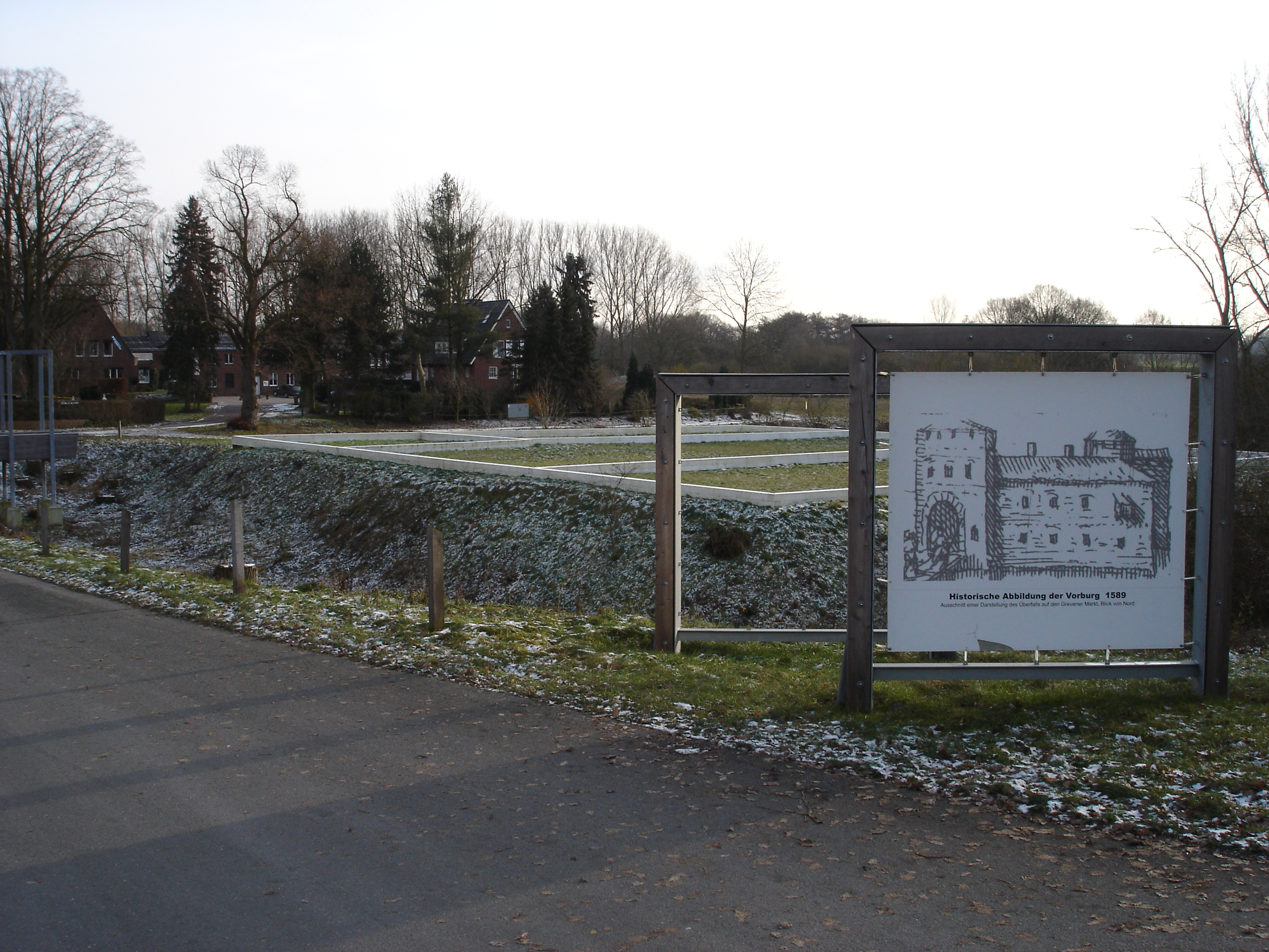 Panoramashot of the former fore-castle of Burg Schöneflieth in Greven, Westphalia, Germany